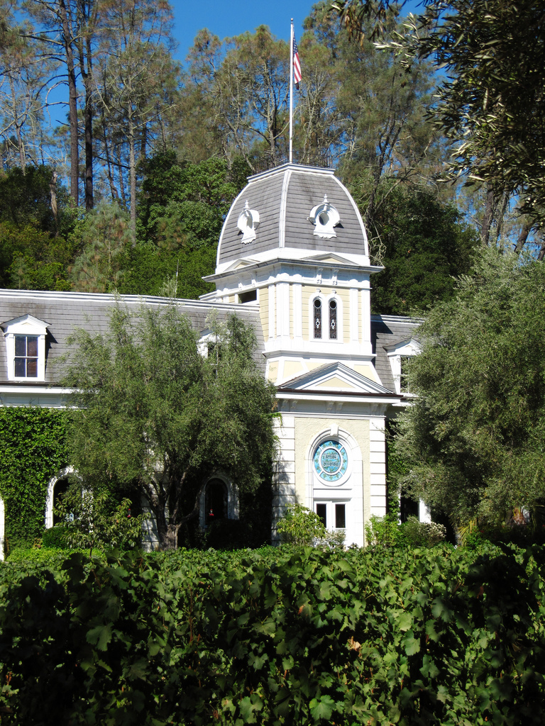 California winery in St. Helena of the Napa Valley